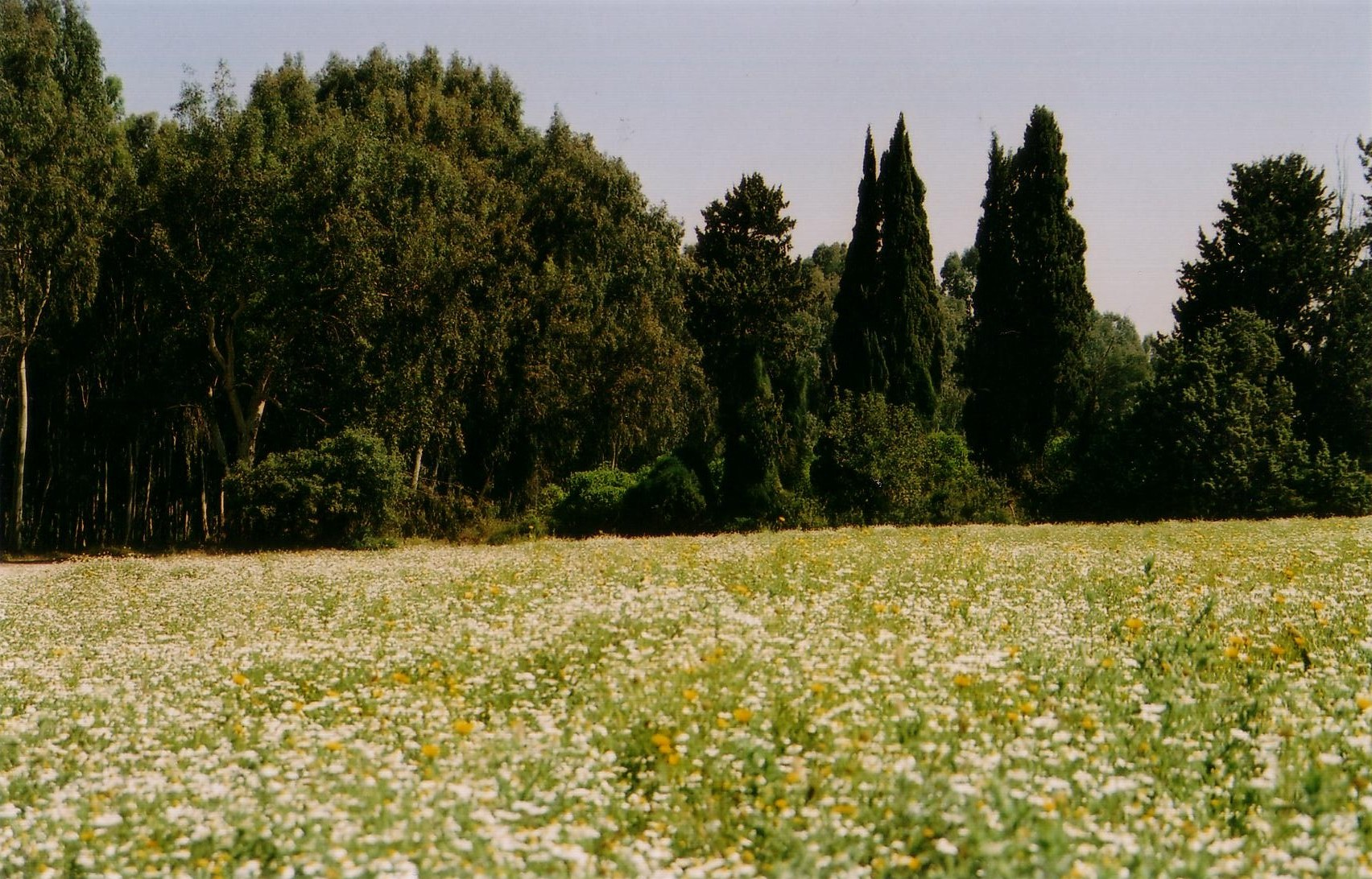 Sharon Park, Israel